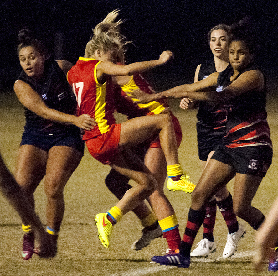 Tackle in a women's Australian rules football match between Bond University and Burleigh Sat 19 Jul 2014